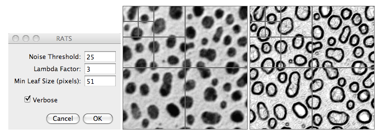 The center and right images show an example image its edge enhancement with the nested quadtrees for just one quadrant superimposed.